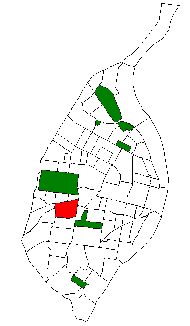 Map of St. Louis Neighborhood #12